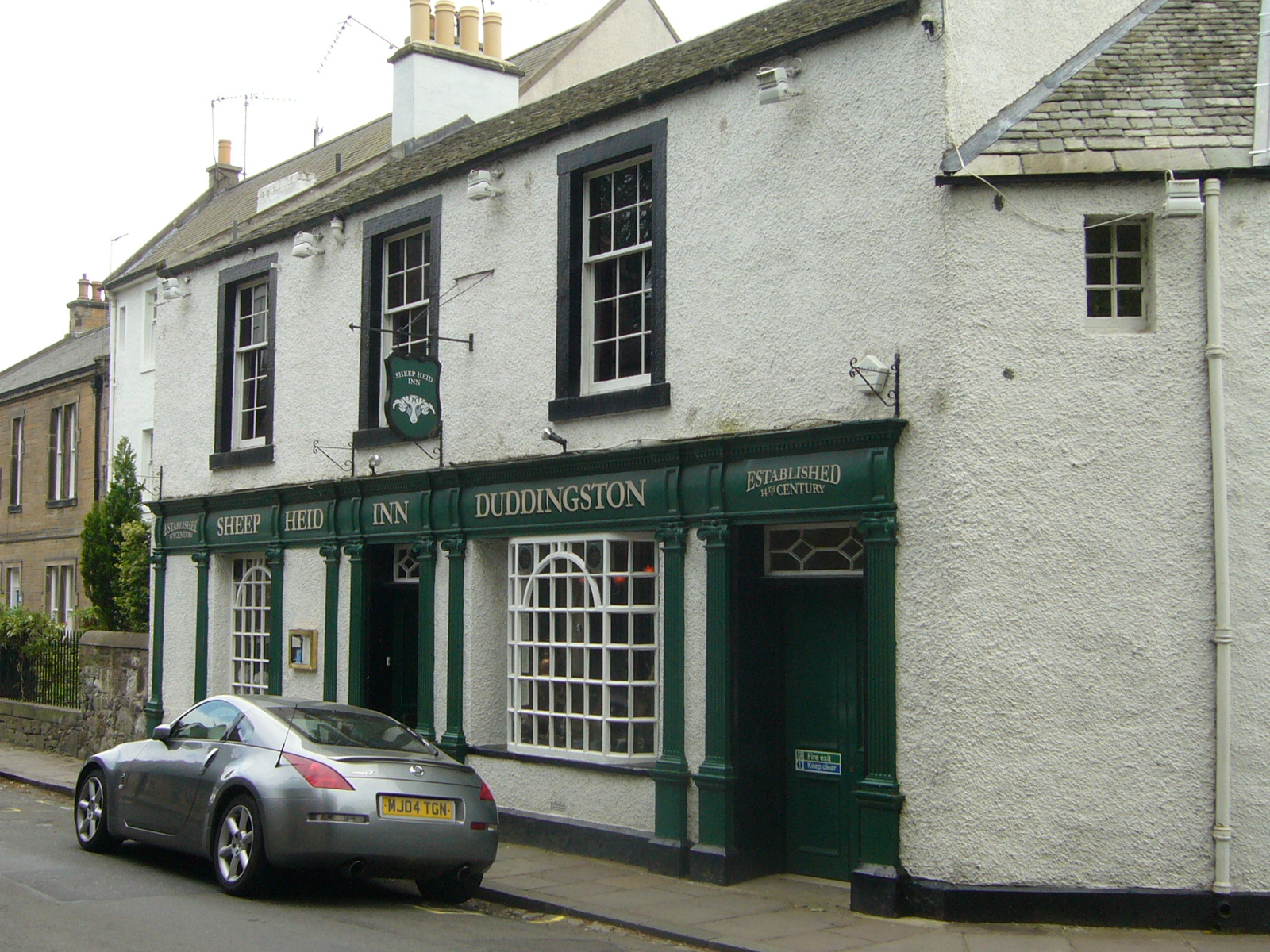 Known in popular parlance as 'the Sheep's Heid', this public house claims to be the oldest known pub in Scotland. Tradition has it that it was established around the mid-14th century. The name comes from the story that James VI, who played skittles in the yard, gifted a snuff box to the landlord which was either embellished with, or in the shape of a ram's head. The present-day pub still has a fully functioning skittle alley which has changed little since it was built in 1882. It is a popular watering-hole for walkers roaming through Holyrood Park.